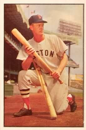 Major League Baseball center fielder Hoot Evers with the Boston Red Sox in 1953.